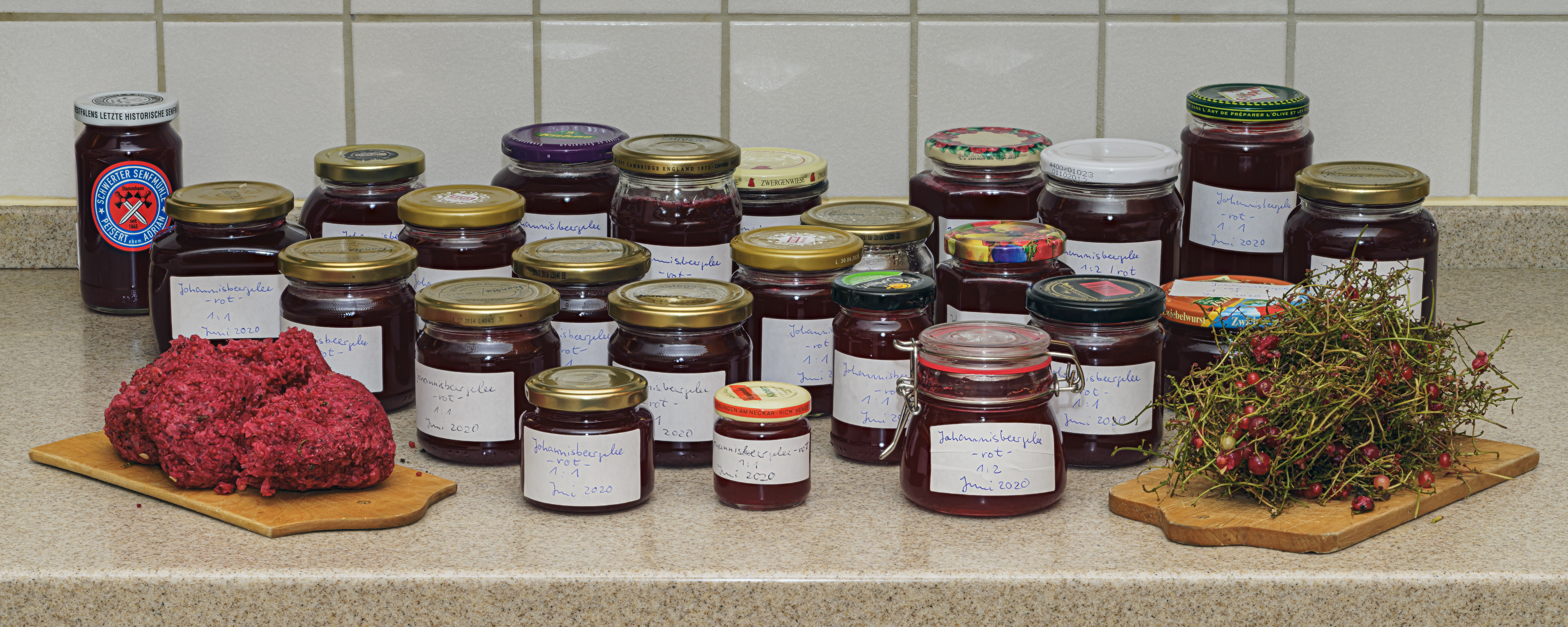 Fresh home-made redcurrant jam - DIY - a phalanx of jars positioned between pulp residue and some of the carefully removed stalks (focus stack)